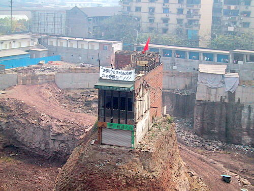 The owners of this Chongqing "nail house" refused to leave it, thwarting plans for a shopping mall.